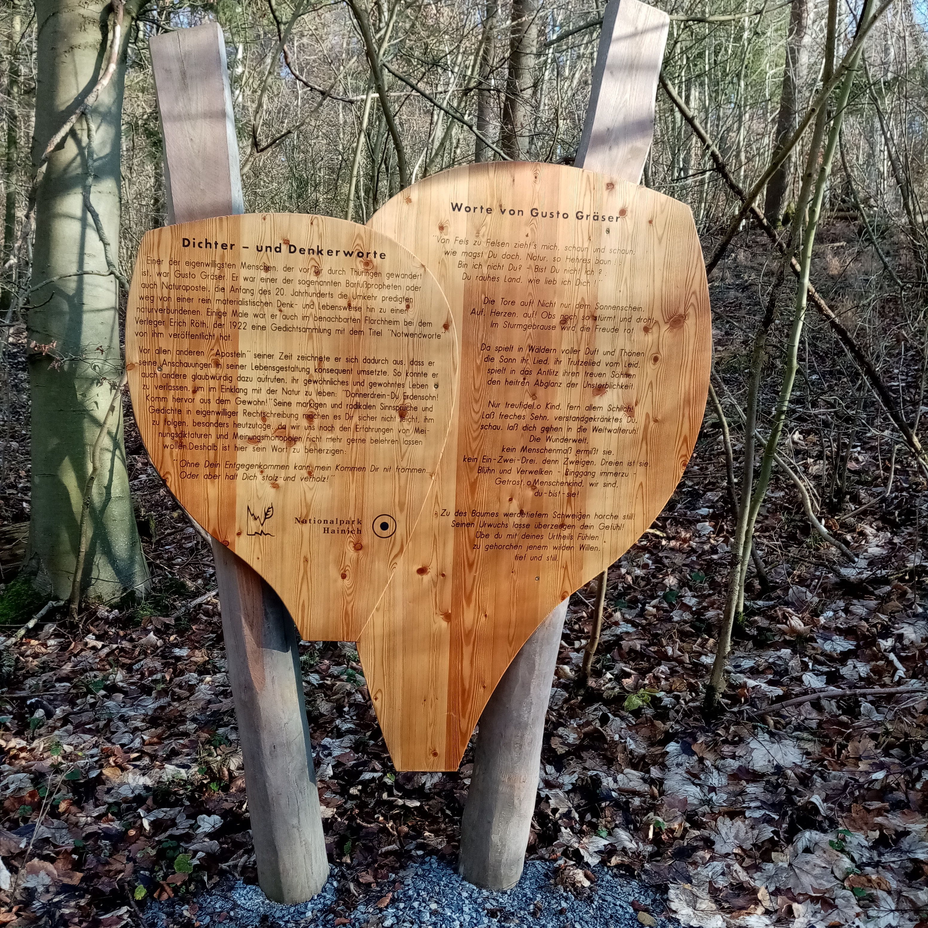 Words by Gusto Gräser in the forest of Nationalpark Hainich, THüringen, Germany